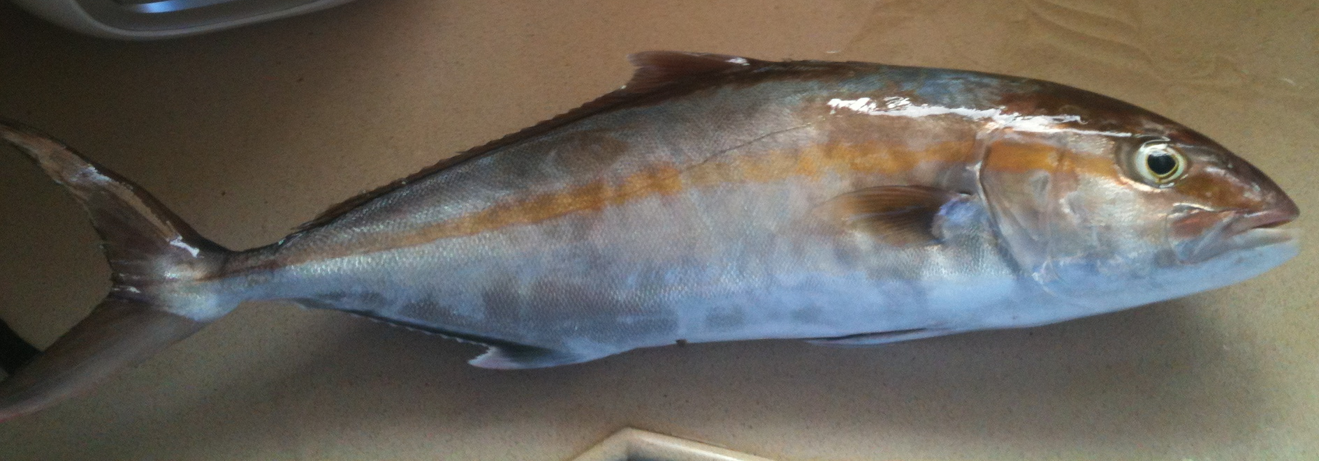 Greater amberjack - this fish (weighing 4 kg) is caught in the Mediterranean Sea, israel.